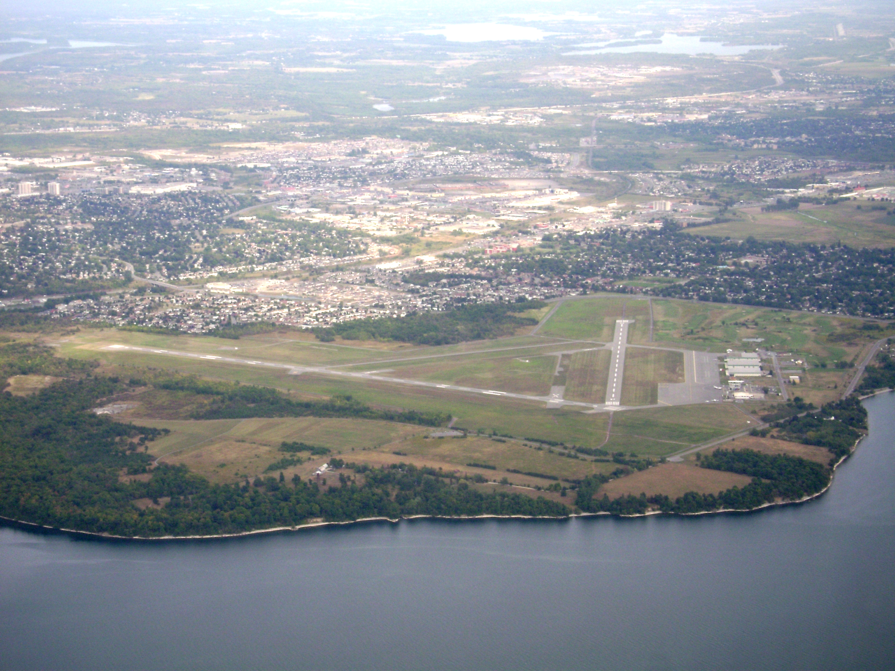 Kingston Norman Rogers Airport, Ontario, Canada, from the south.